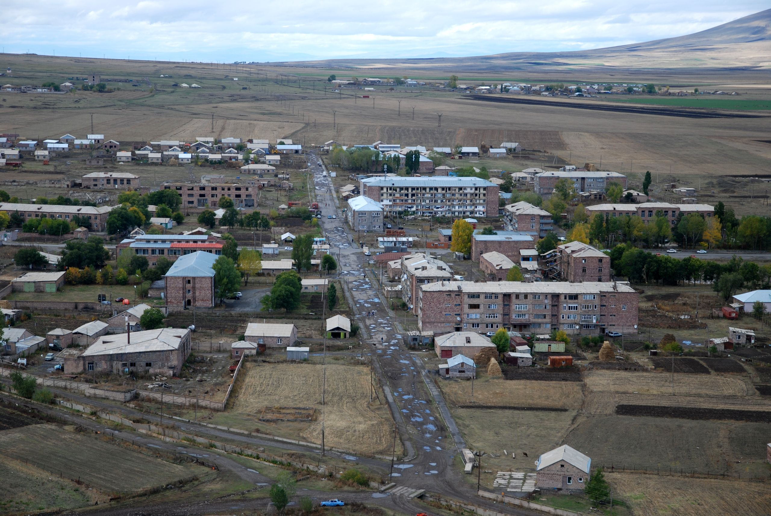 Tsaghkahovit, north part of village